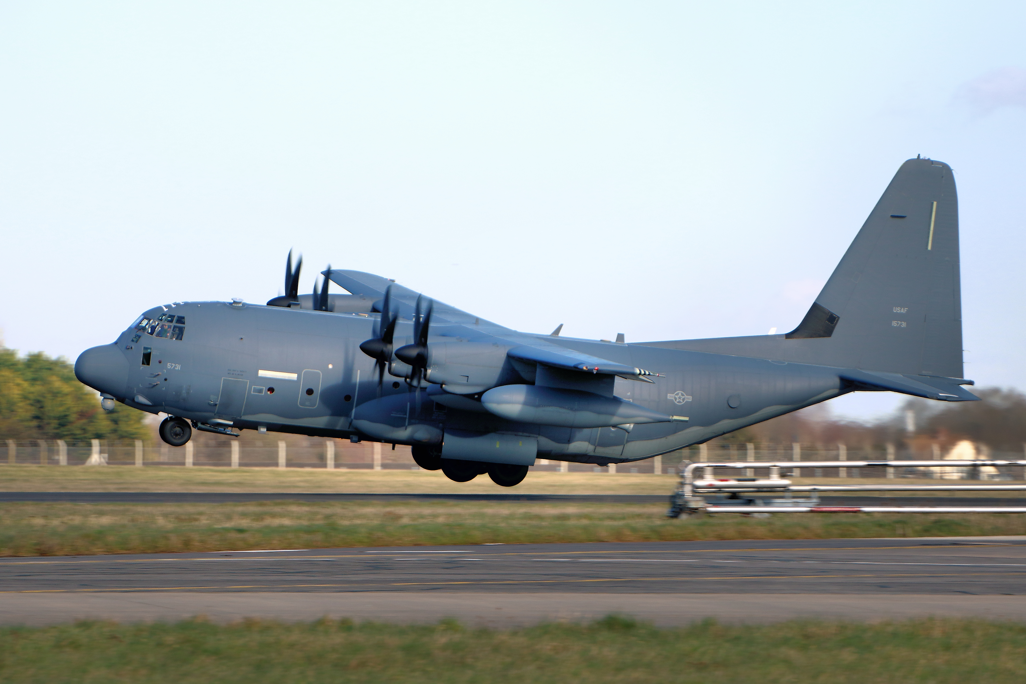 C-130 Hercules "Combat Shadow" RAF Mildenhall USAF